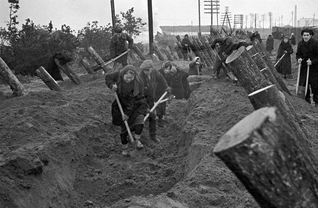 “Muscovites building fortifications”. Muscovites building fortifications.